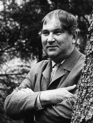 Photograph of the Finnish composer Tauno Marttinen (1912–2008)